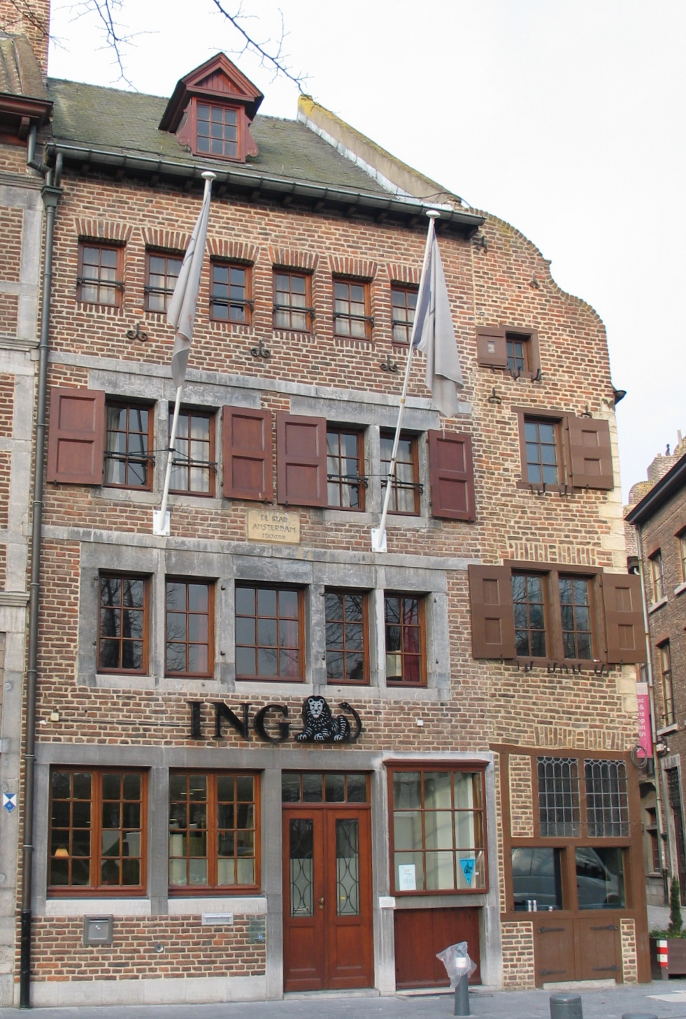 Building in Maaseik.